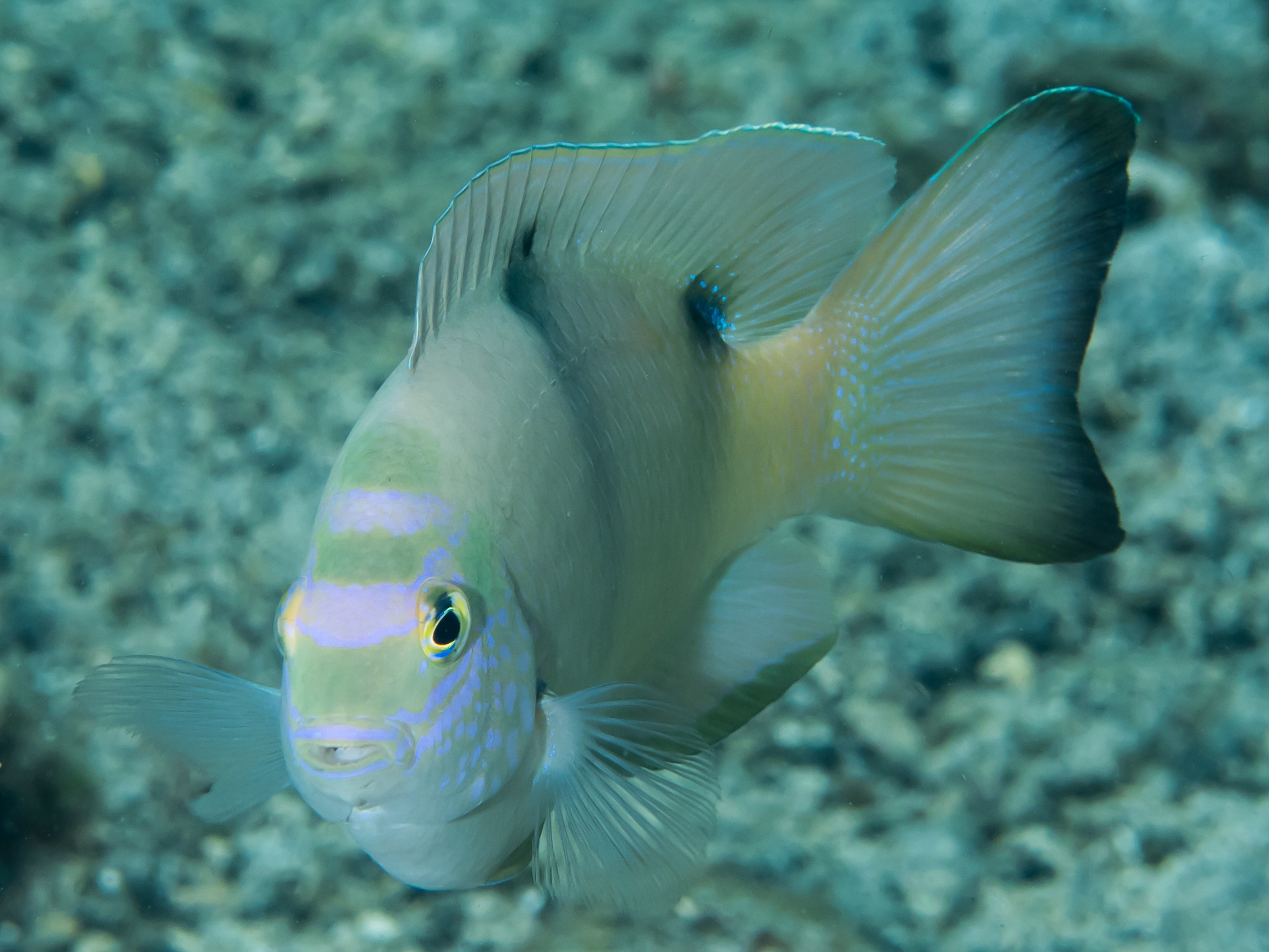 Lembeh, Indonesia - White damsel juvenile (Dischistodus perspicillatus)